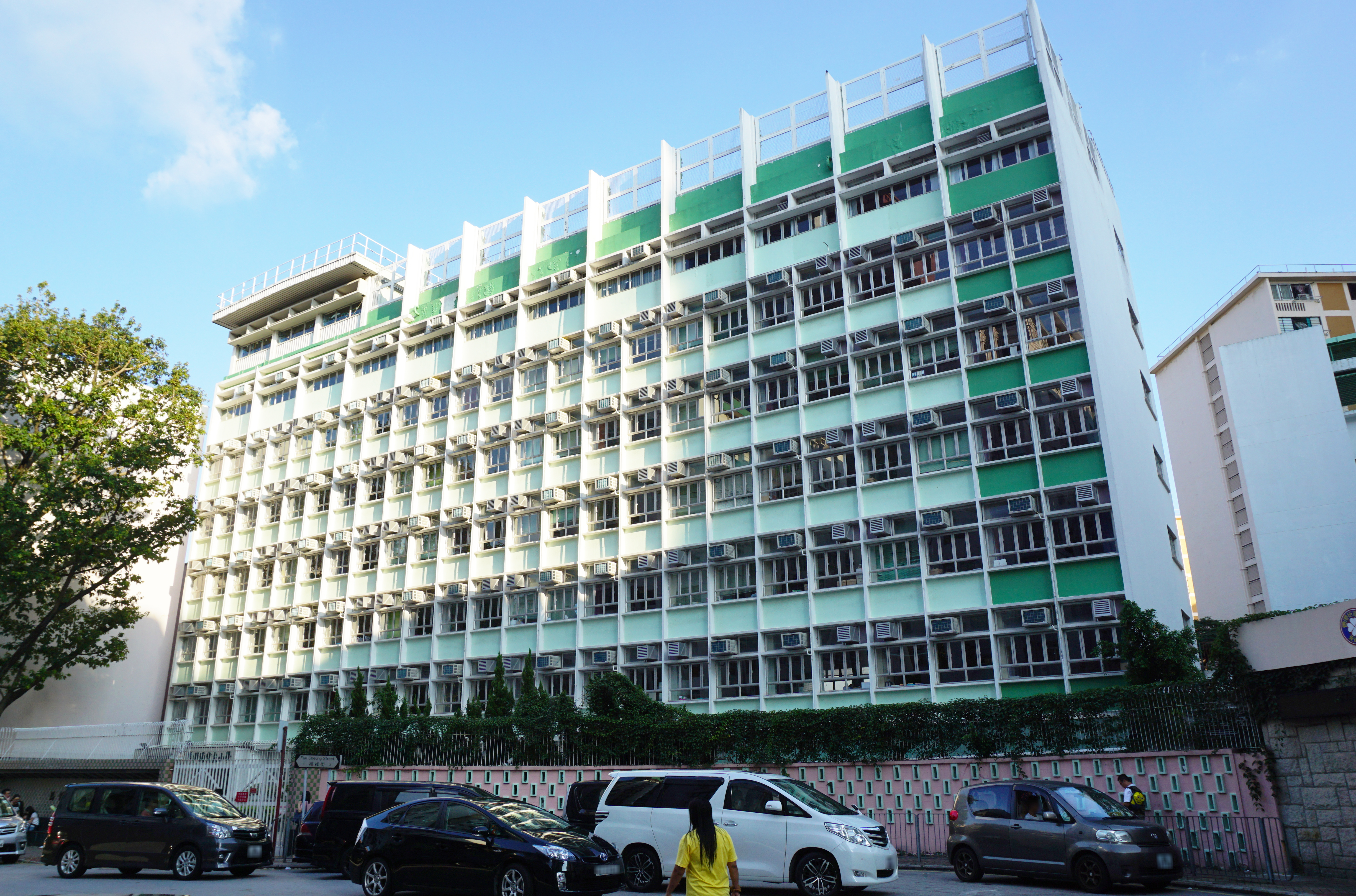 Ma Tau Chung Government Primary School in To Kwa Wan, Hong Kong.